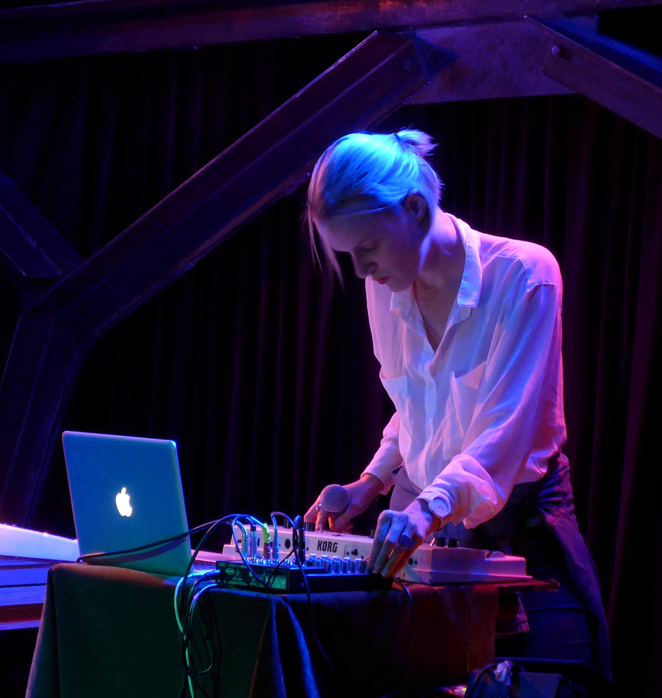 Maria Minerva performing at The Place, St Petersburg, Russia, 2014.12.18